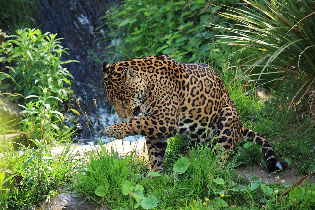 Wild jaguar licking its paw